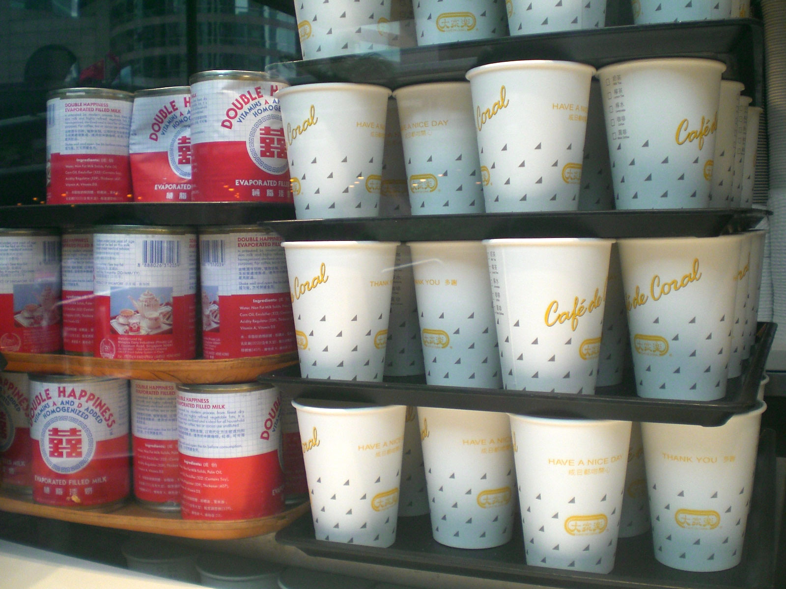 大家樂的水吧一景 - 紙杯和zh:雙喜牌zh:淡奶